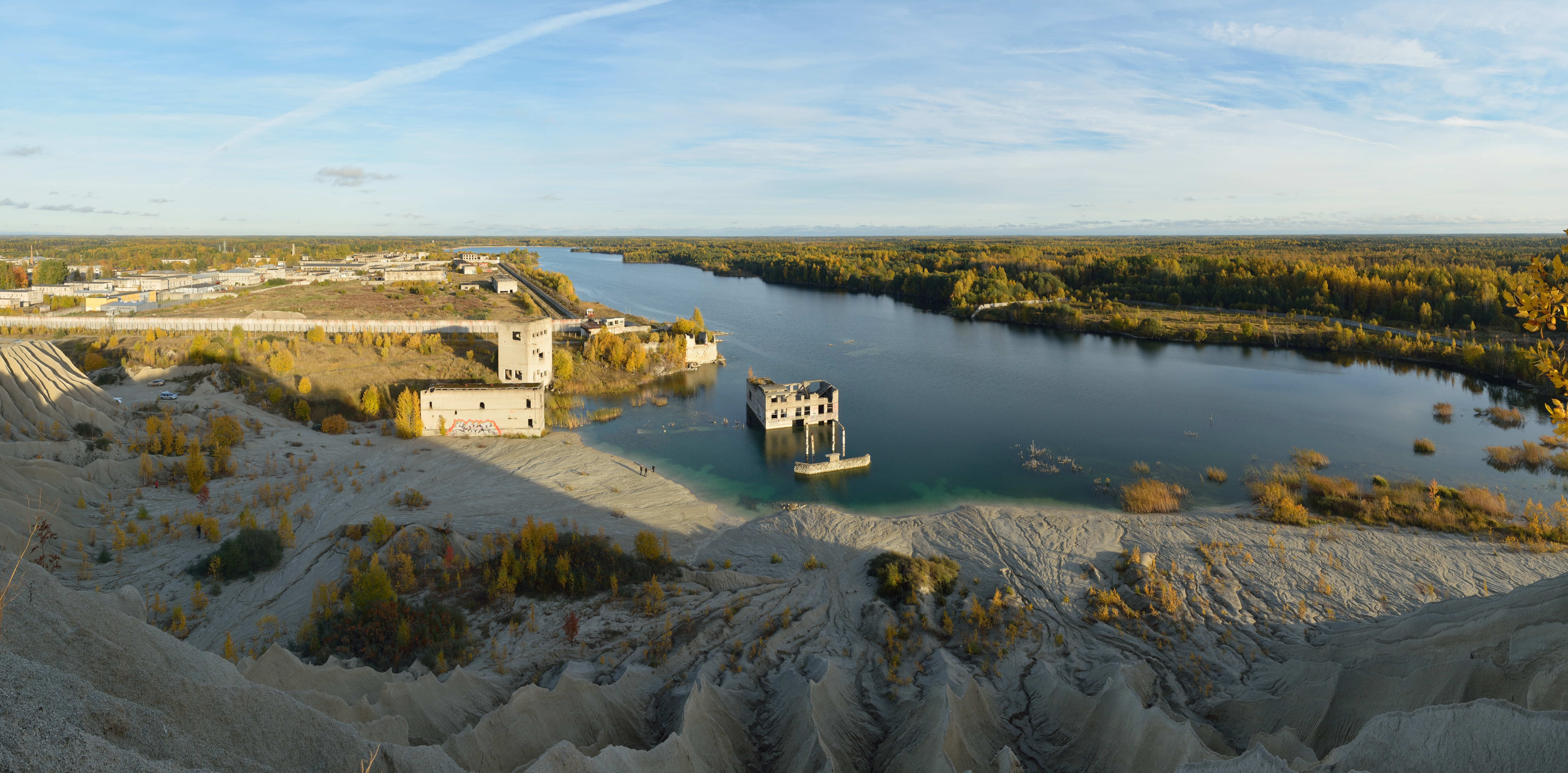 Rummu quarry, Rummu, Estonia. Limestone mining quarry was established in 1938. Limestone was mined by convicts of the adjacent Murru prison until the restoration of Estonian independence. The quarry filled up by natural water after mining was no longer necessary and draining of water was stopped. Abandonment of the quarry happened so fast that some machinery was sunken along with the building complex. The prison itself remained active until the end of 2012.